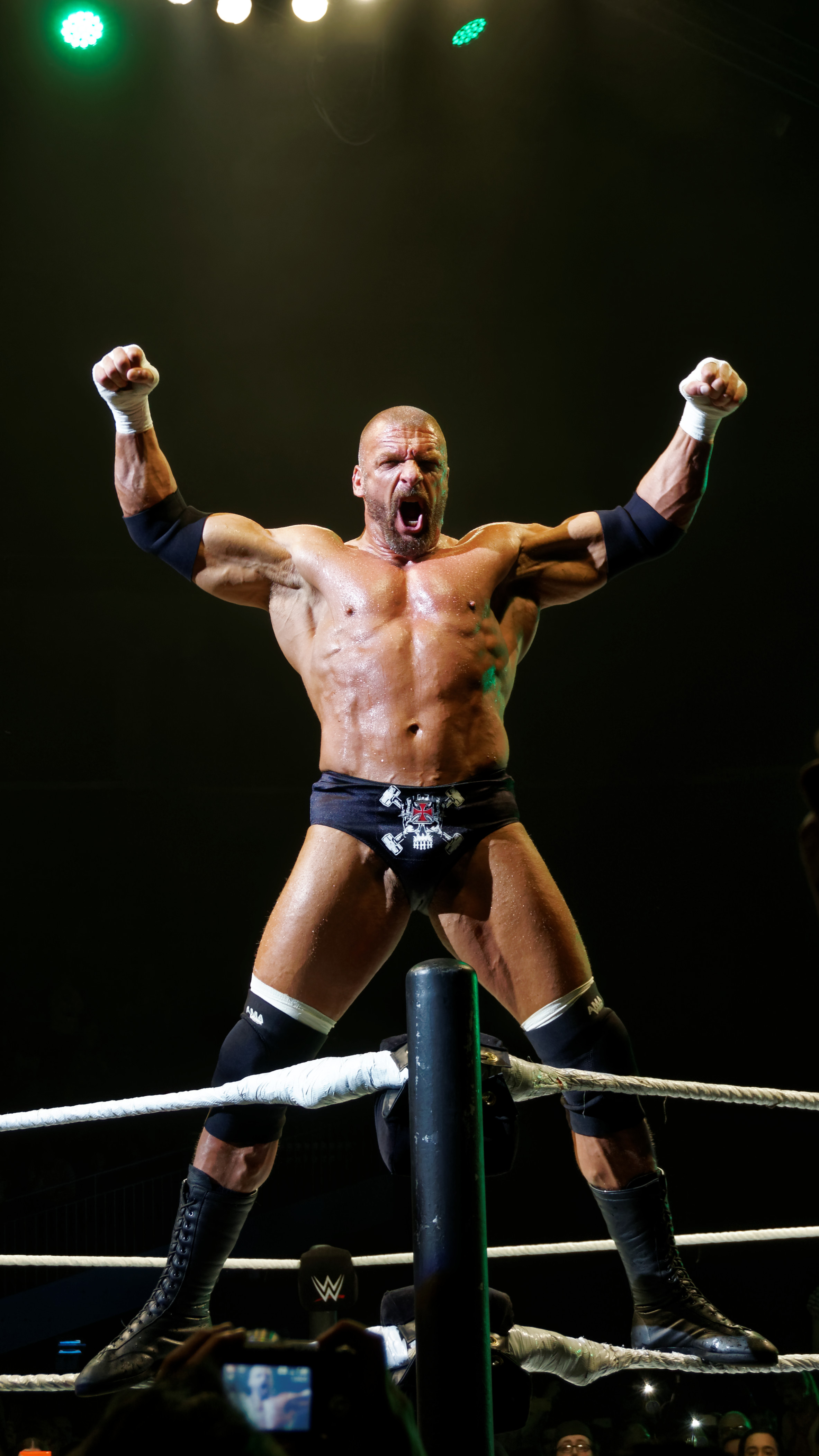 WWE Live WrestleMania Revenge Dean Ambrose def. Triple H